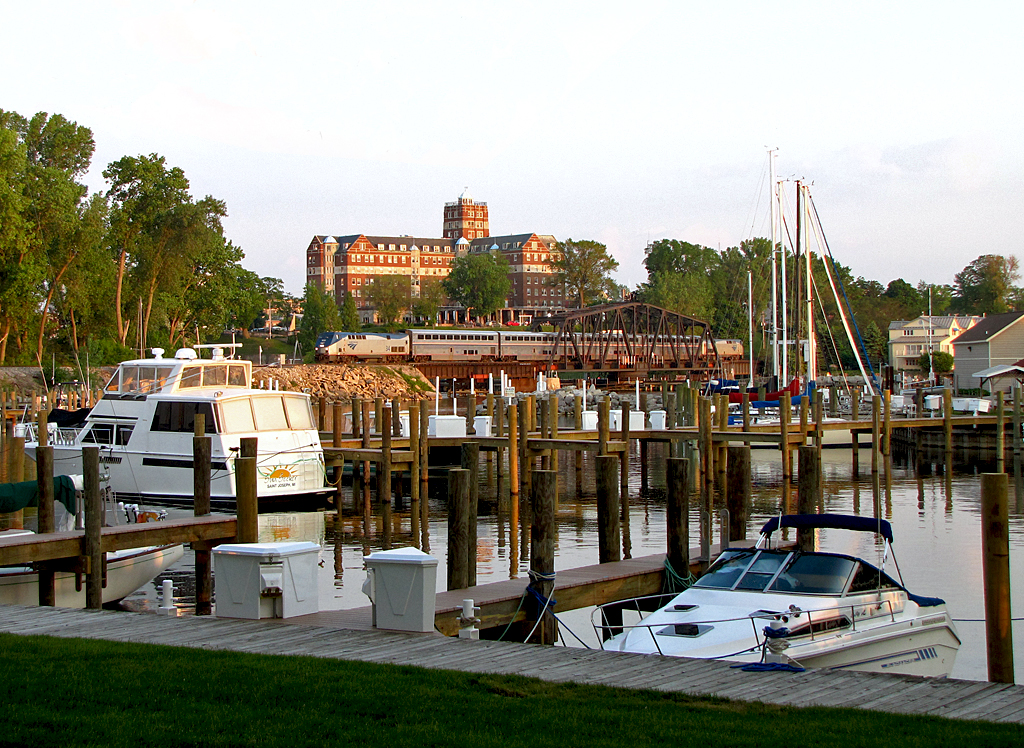 A 30 minute late P370 crosses the St. Joseph River just prior to sunset on a hot and muggy may night.